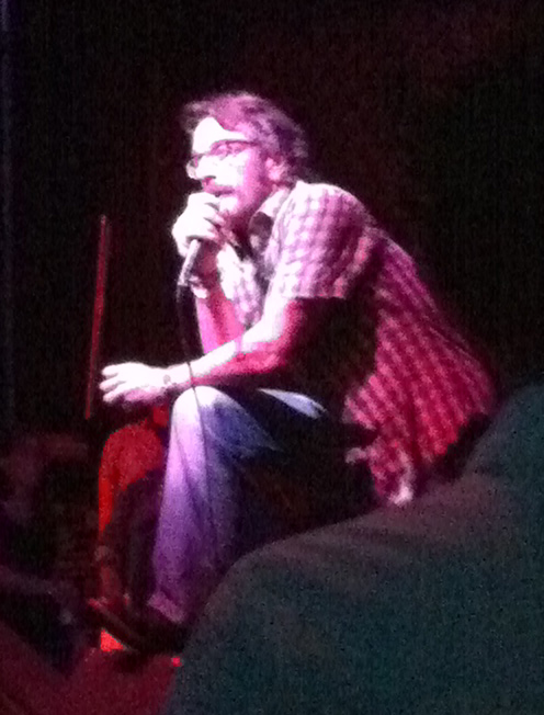 Marc Maron performing at the Triple Rock Social Club in Minneapolis on July 17th, 2010